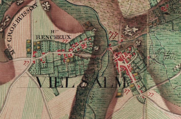 The town of Vielsalm (then part of the Duchy of Luxembourg, nowadays in Belgium) in a sheet of the Carte de cabinet des Pays-Bas autrichiens levée à l'initiative du comte de Ferraris : sous la dir. de Joseph-Johann-Franz Ferraris. - [ca 1:11 520]